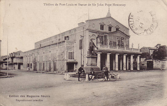 Mauritius, Port Louis: Theatre